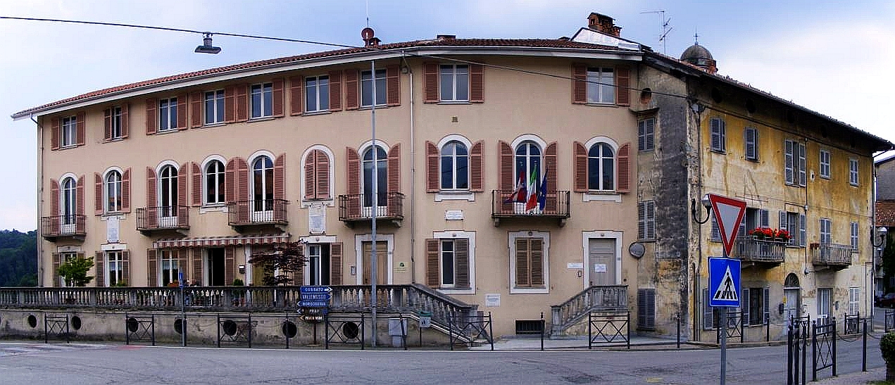 Croce Mosso (Vallemosso, BI, Italy): former People's House